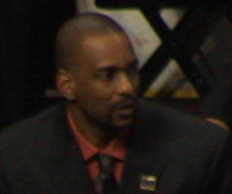 Denver Nuggets assistant coach Stacey Augmon sits on the bench during Game 5 of the Western Conference Semifinals against the Dallas Mavericks at the Pepsi Center in Denver, Colo. on May 13, 2009.